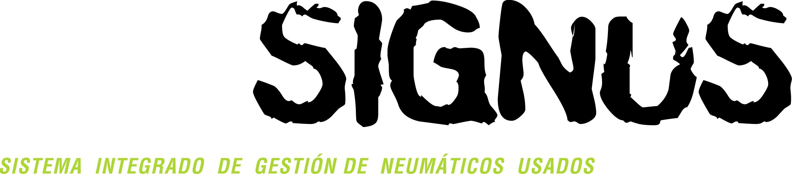 Signus logo color mejor